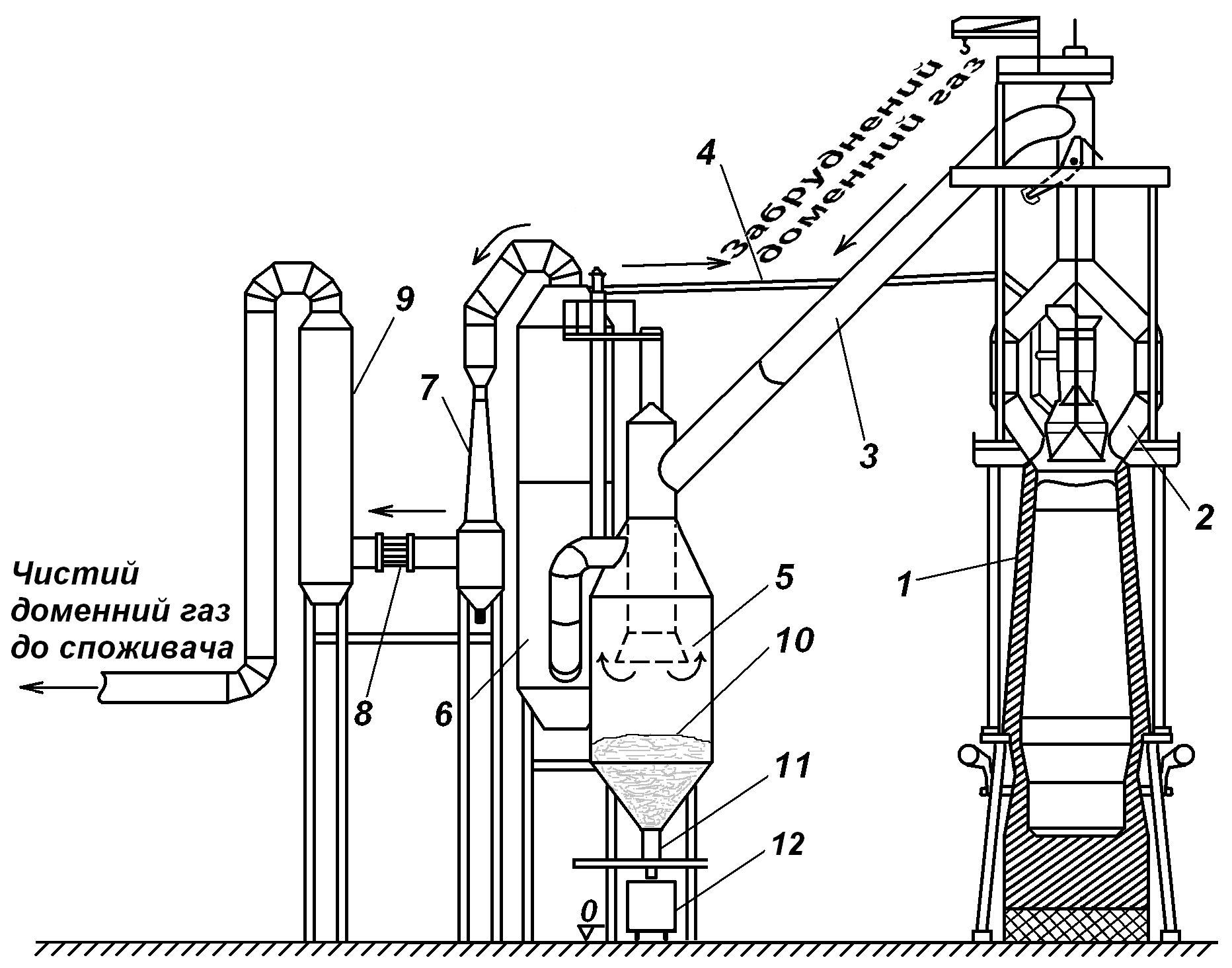 Blast furnace gas cleaning system.